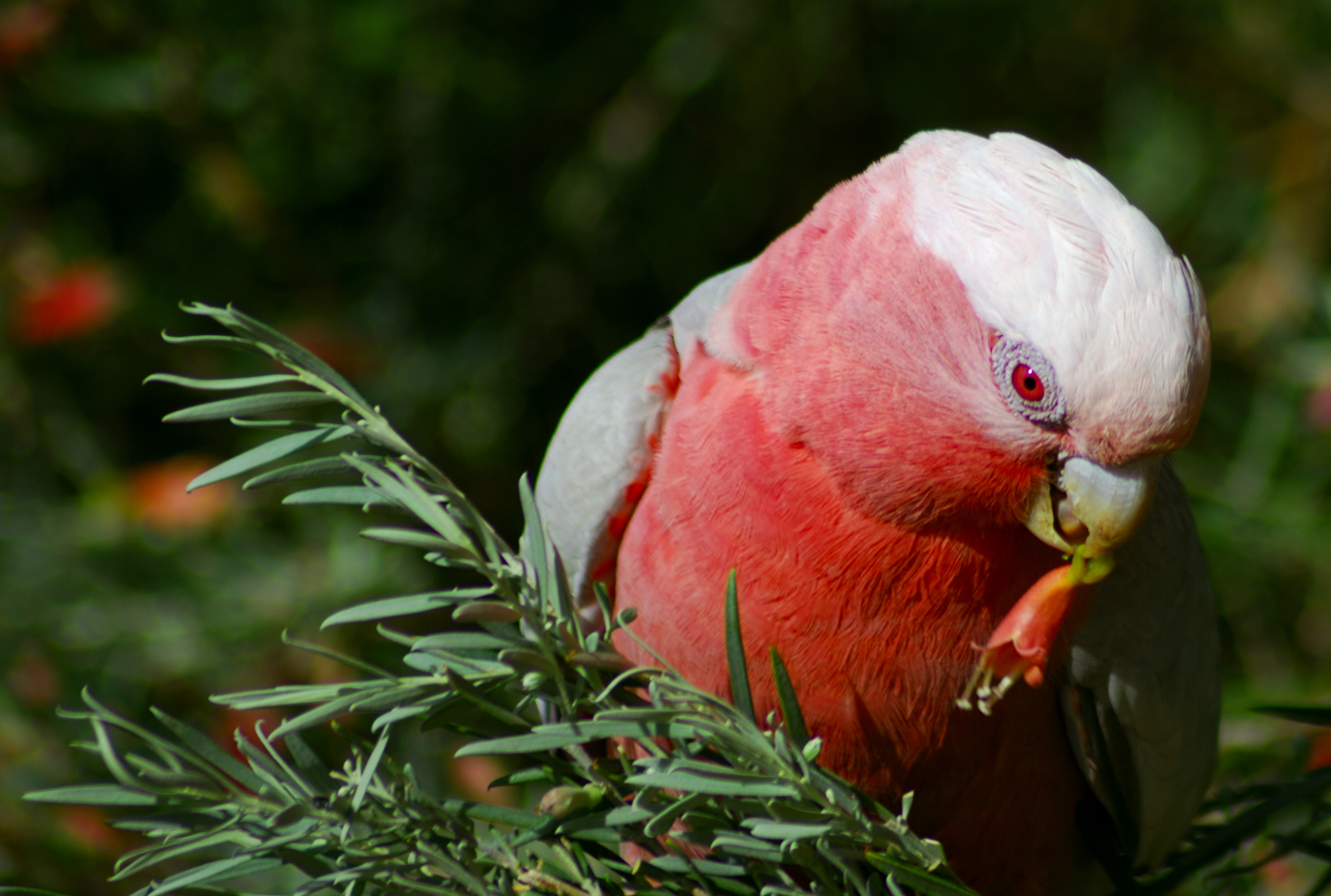 Galah or Rose-breasted Cockatoo in Yulara, Nothern Territory, Australia.